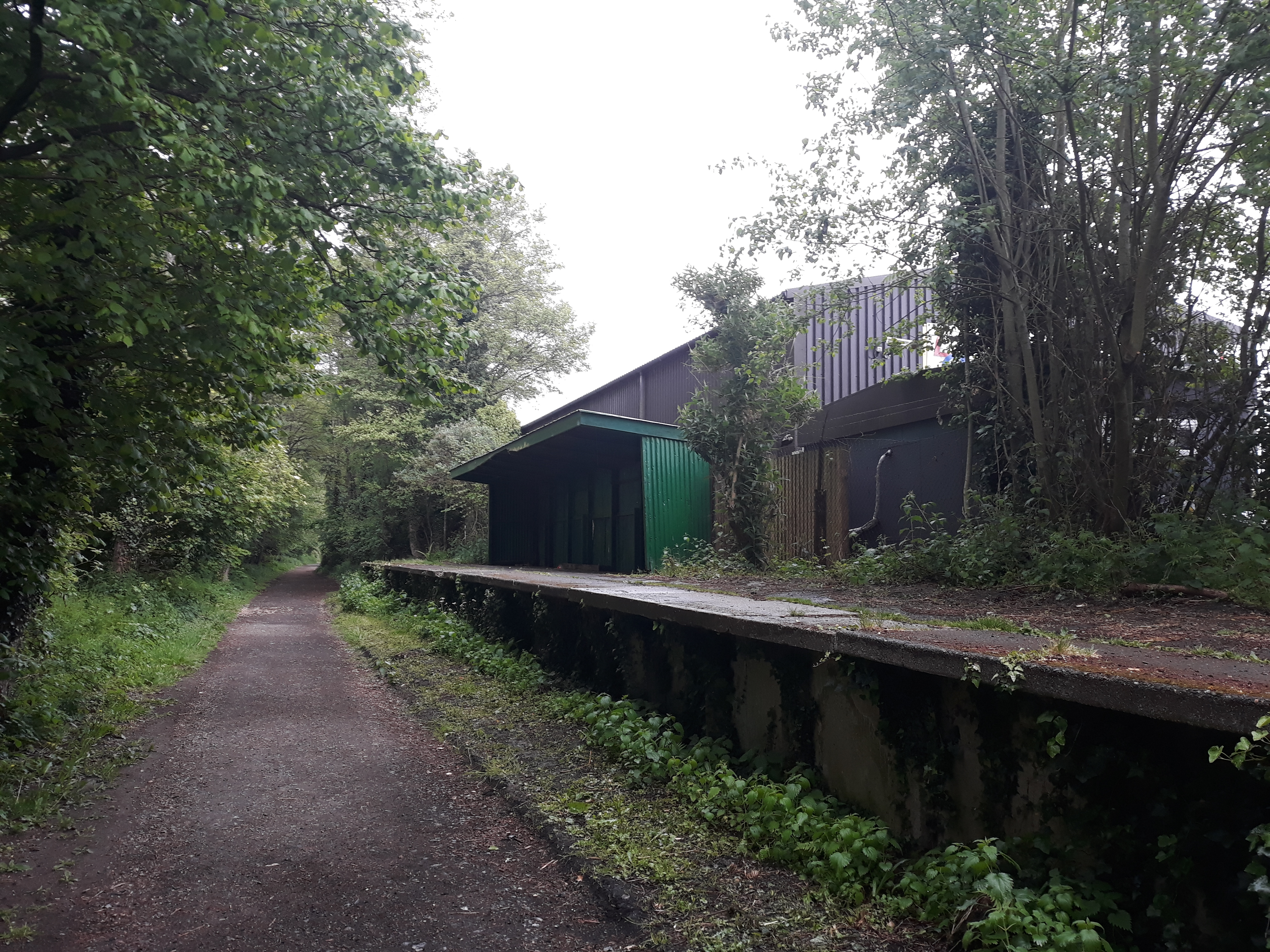 Platform of the former Longmoor Military Railway, Liss, Hampshire, England.